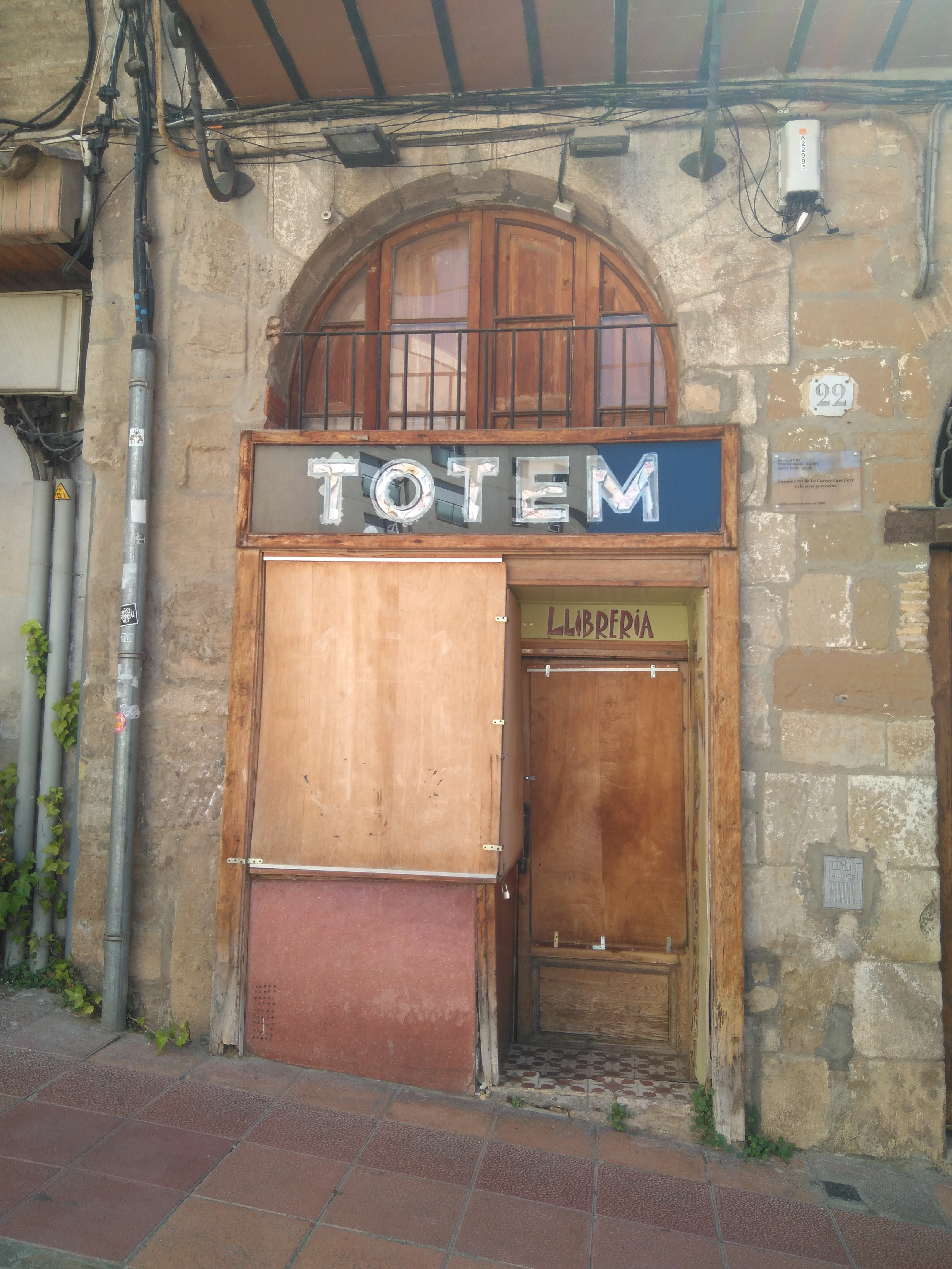 Totem, a second-hand bookshop in Lleida.